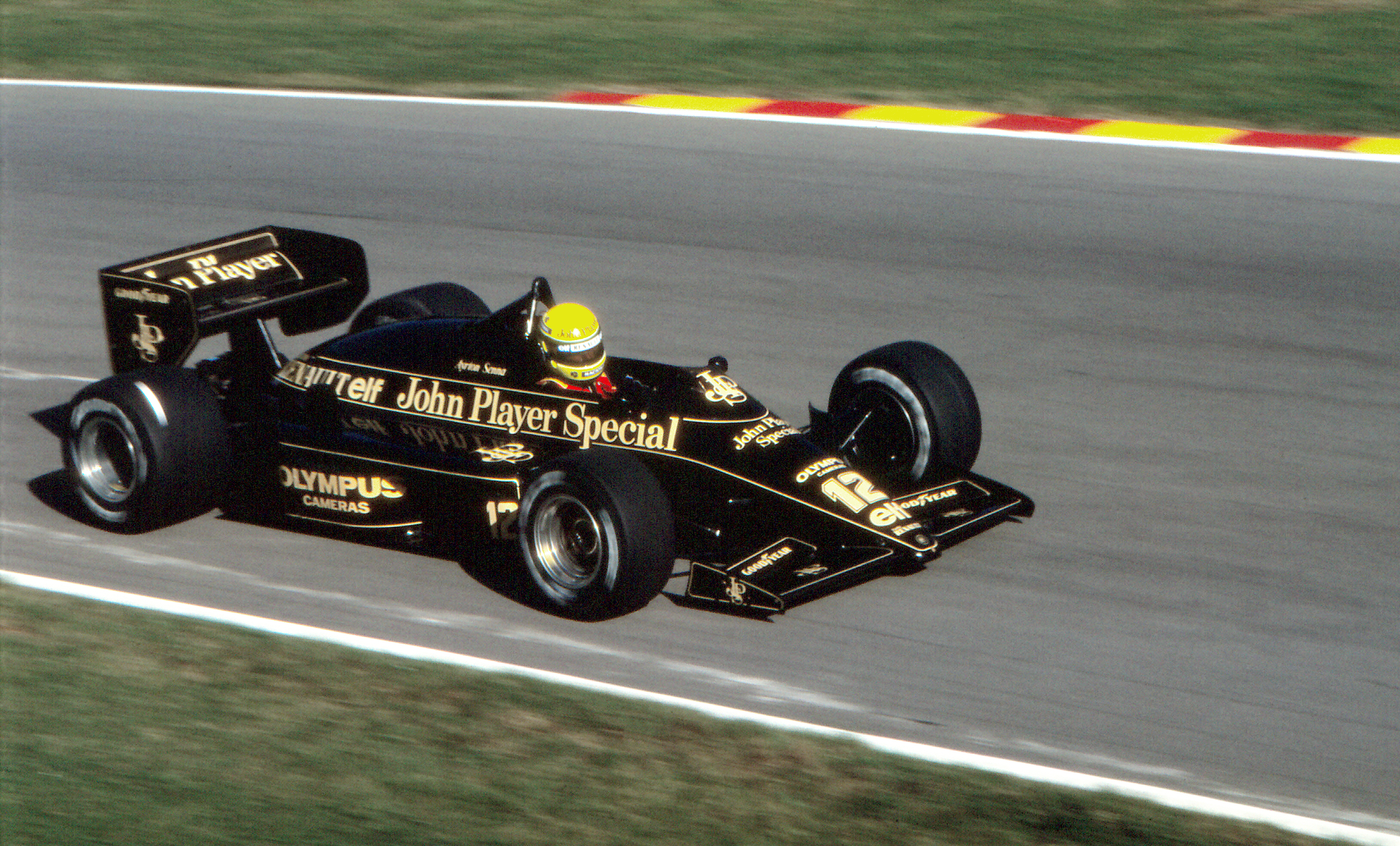 Ayrton Senna during practice for the 1985 European Grand Prix